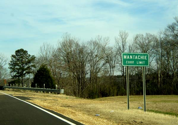 Mantachie, Mississippi corporate limits signage on Mississippi State Route 371.